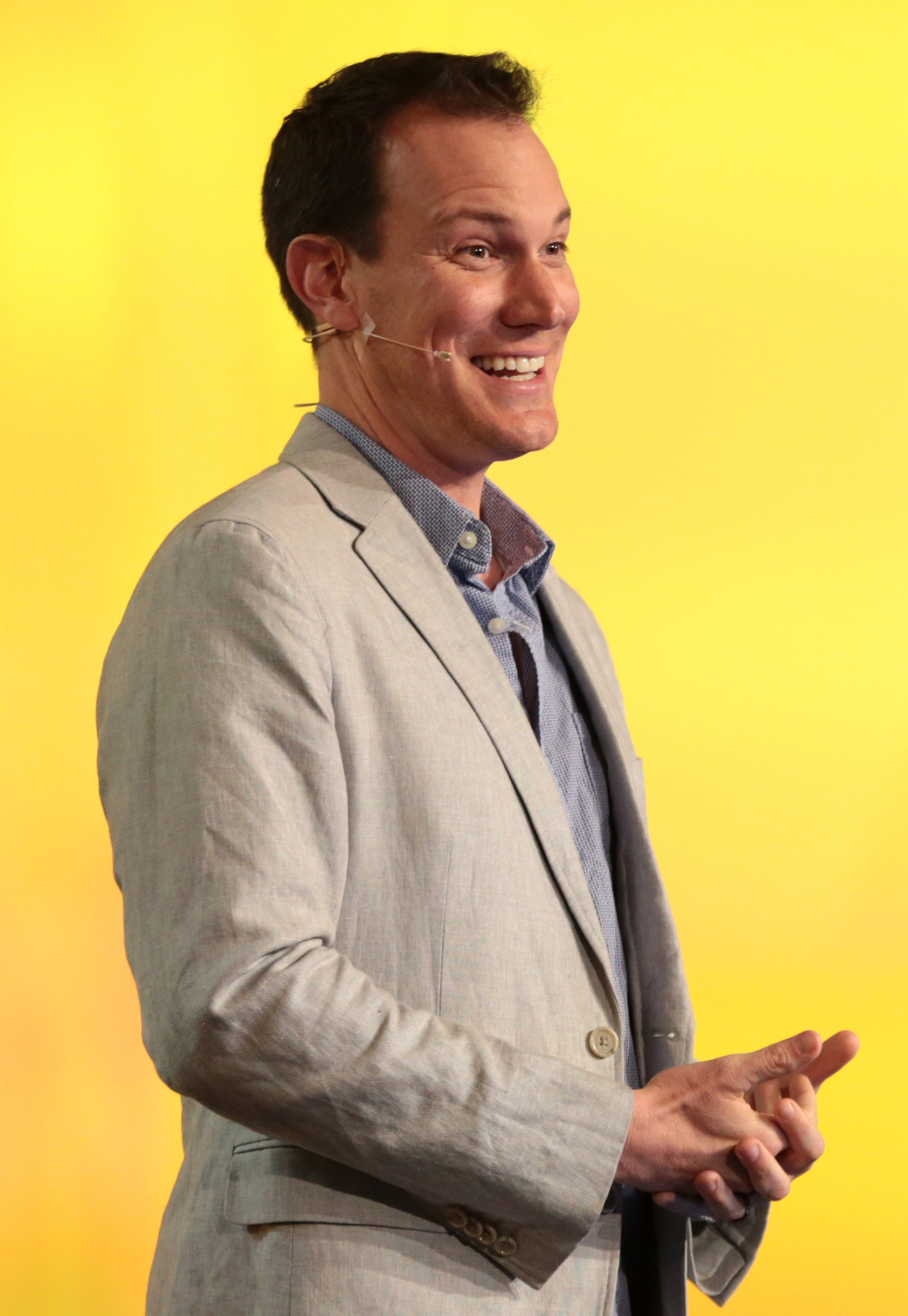 Shawn Achor speaking at an event in Phoenix, Arizona.